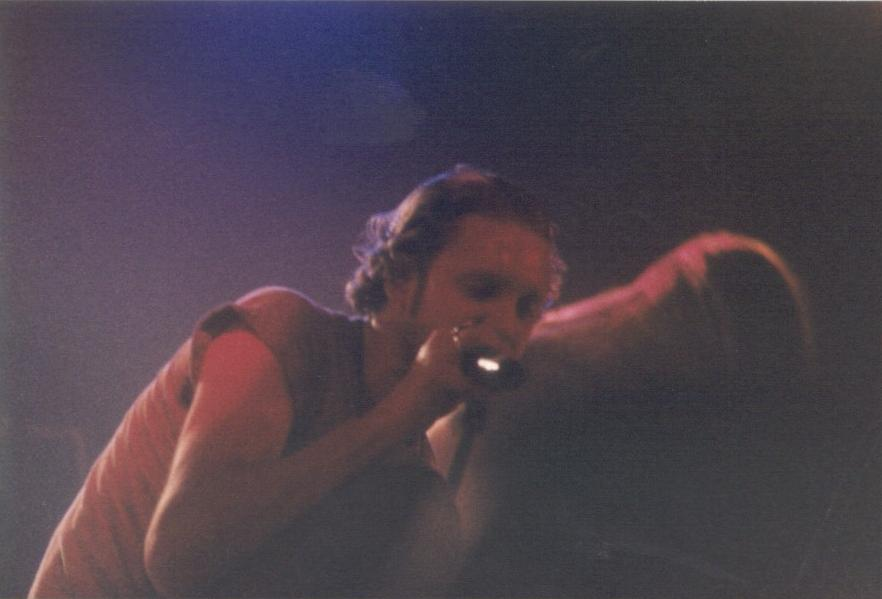 Alice in Chains at The Channel in Boston, MA.